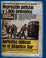 Diario Popular (Argentina) am Vorabend des Falklandskrieges